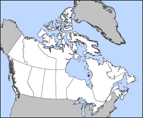 Map of Canada